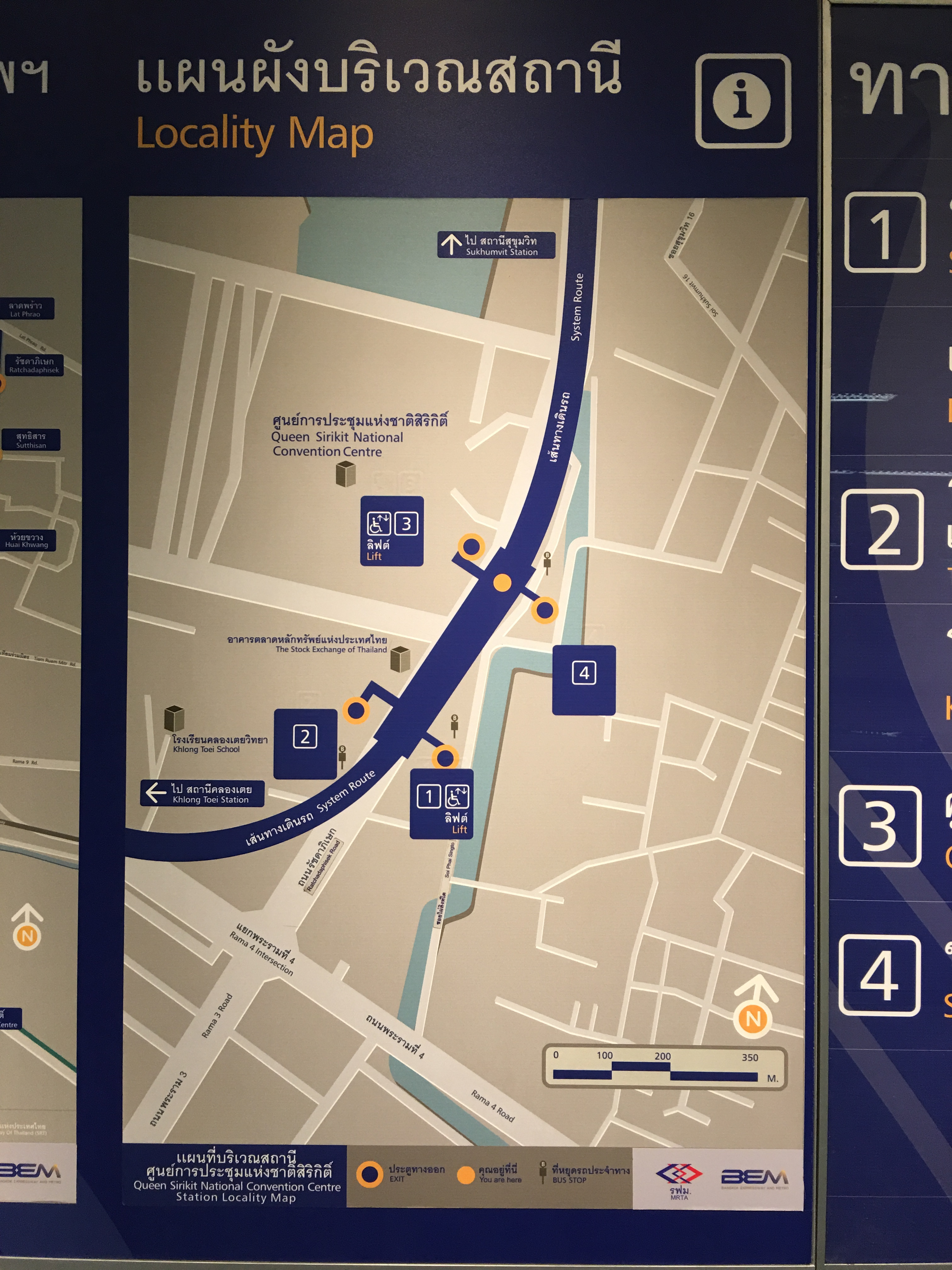 The locality map of Queen Sirikit Centre Station